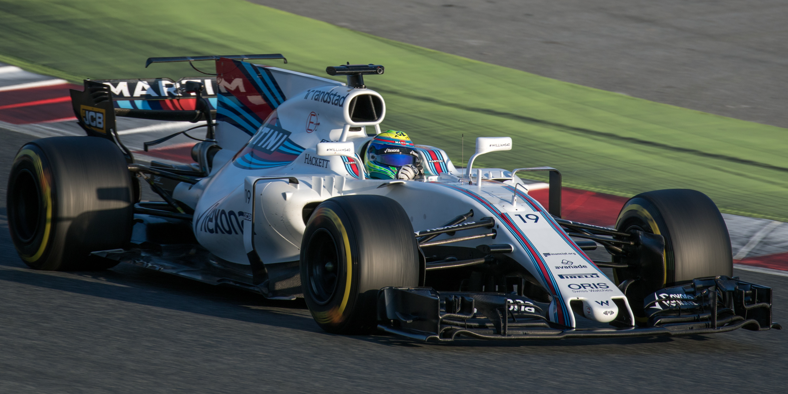 Formula One 2017 Catalonia test (27 February-2 March): Felipe Massa (Williams)